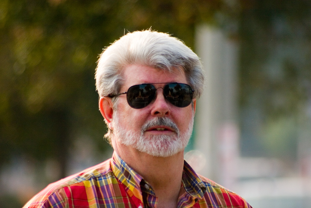 A portrait of George Lucas, Pasadena, California, USA